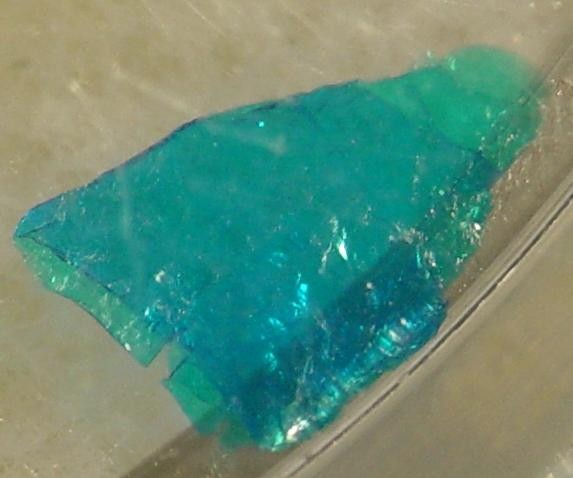 Andyrobertsite, Calcioandyrobertsite Locality: Tsumeb Mine (Tsumcorp Mine), Tsumeb, Otjikoto (Oshikoto) Region, Namibia (Locality at ) Size: 3.3 x 2.5 x 1 mm. A piece of the only known specimen of Andyrobertsite and Calcio-andyrobertsite (see the Mineralogical Record, Vol. 30, #3, May-June, 1999). The color on this single crystal ranges from a spectacular royal blue (Andyrobertsite) to a beautiful and intense green (Calcio-andyrobertsite), with a superb luster to match. Both are valid species in a series. This specimen was peeled off the TYPE SPECIMEN and so is a HOLOTYPE. This means that it is a validated piece from the type descriptive specimen listed in the scientific records for the species. It is accompanied by the label from William Pinch, who gave it to Charlie as a gift when Bill found out that he had a new species. Bill bought the specimen (said to have been found about 1950) years ago and to this day it is the only one that has turned up. This is a rare trim he peeled off it, for his friend, with documentation.